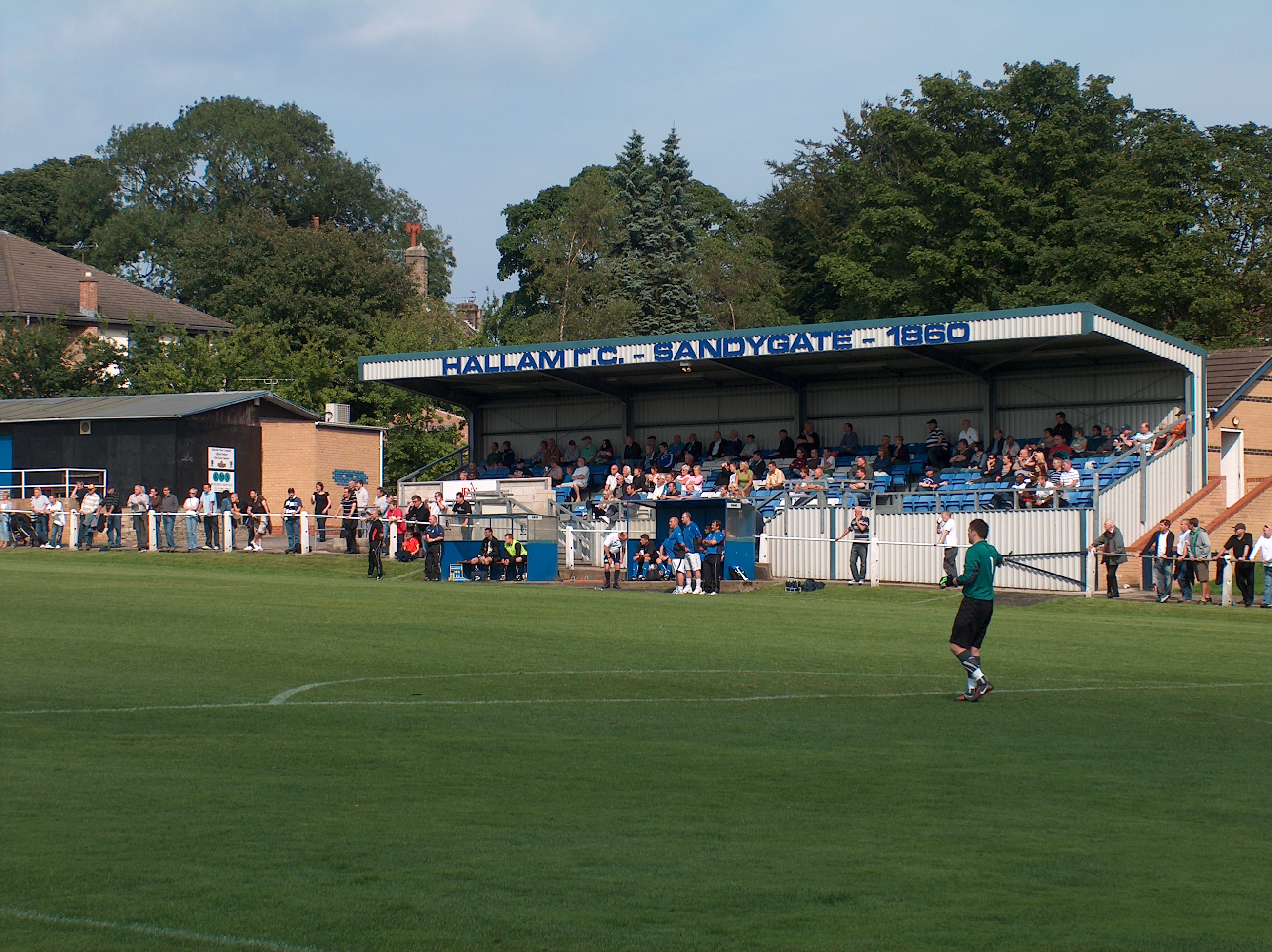 View of the main stand at Hallam FC's Sandygate GroundThis photograph was taken at the oldest football ground in the world during an FA Cup preliminary fixture between Hallam and visitors - Atherton Collieries. Atherton won 3-2. Sandygate has been Hallam FC's home ground ever since the club was formed in 1860.